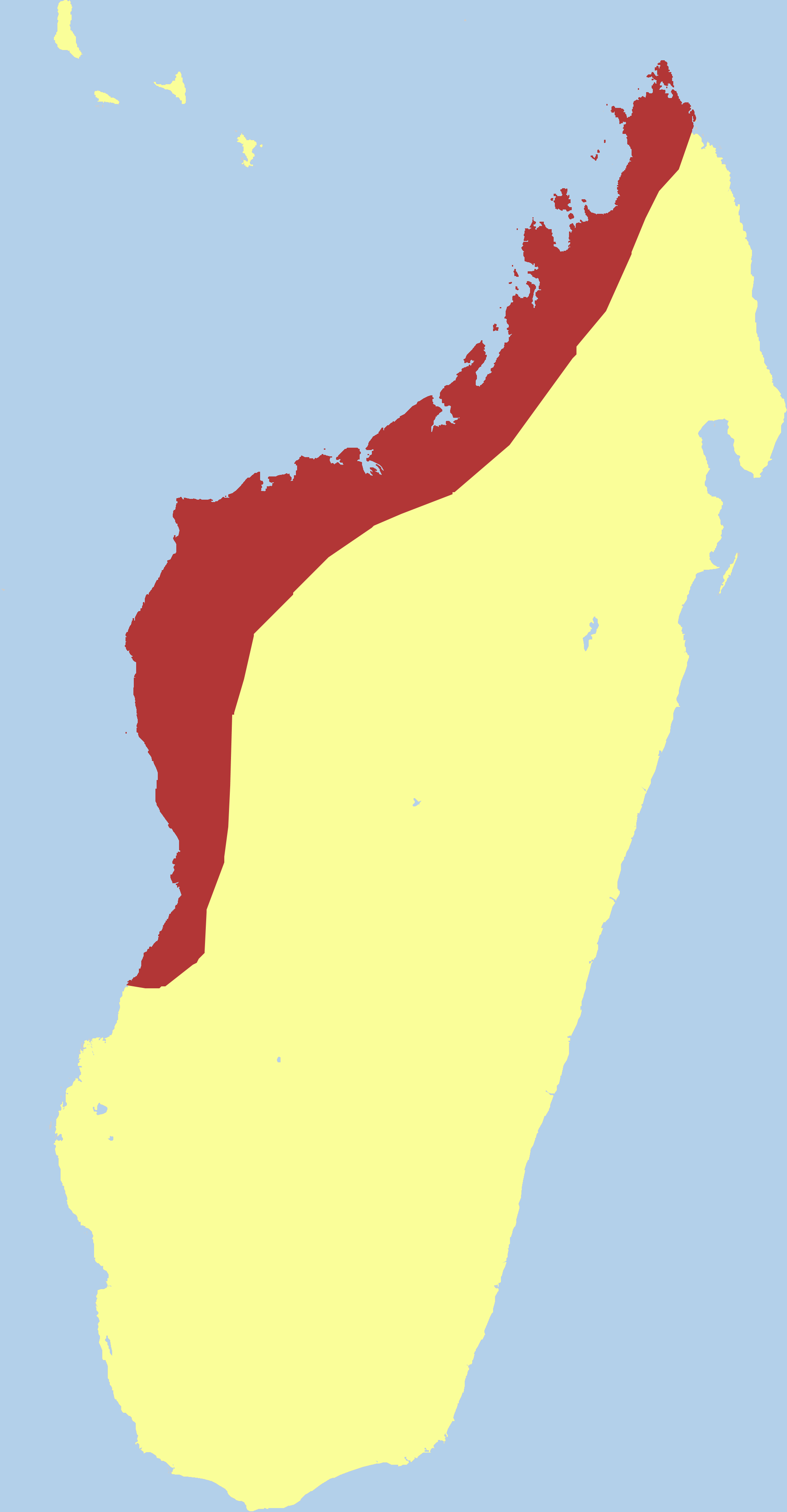 The Distribution of the Madagascar Fish Eagle